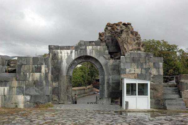 Garni wall, Armenia